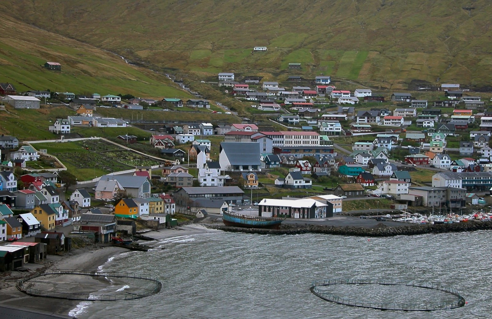 Fuglafjørður - Faroe Islands